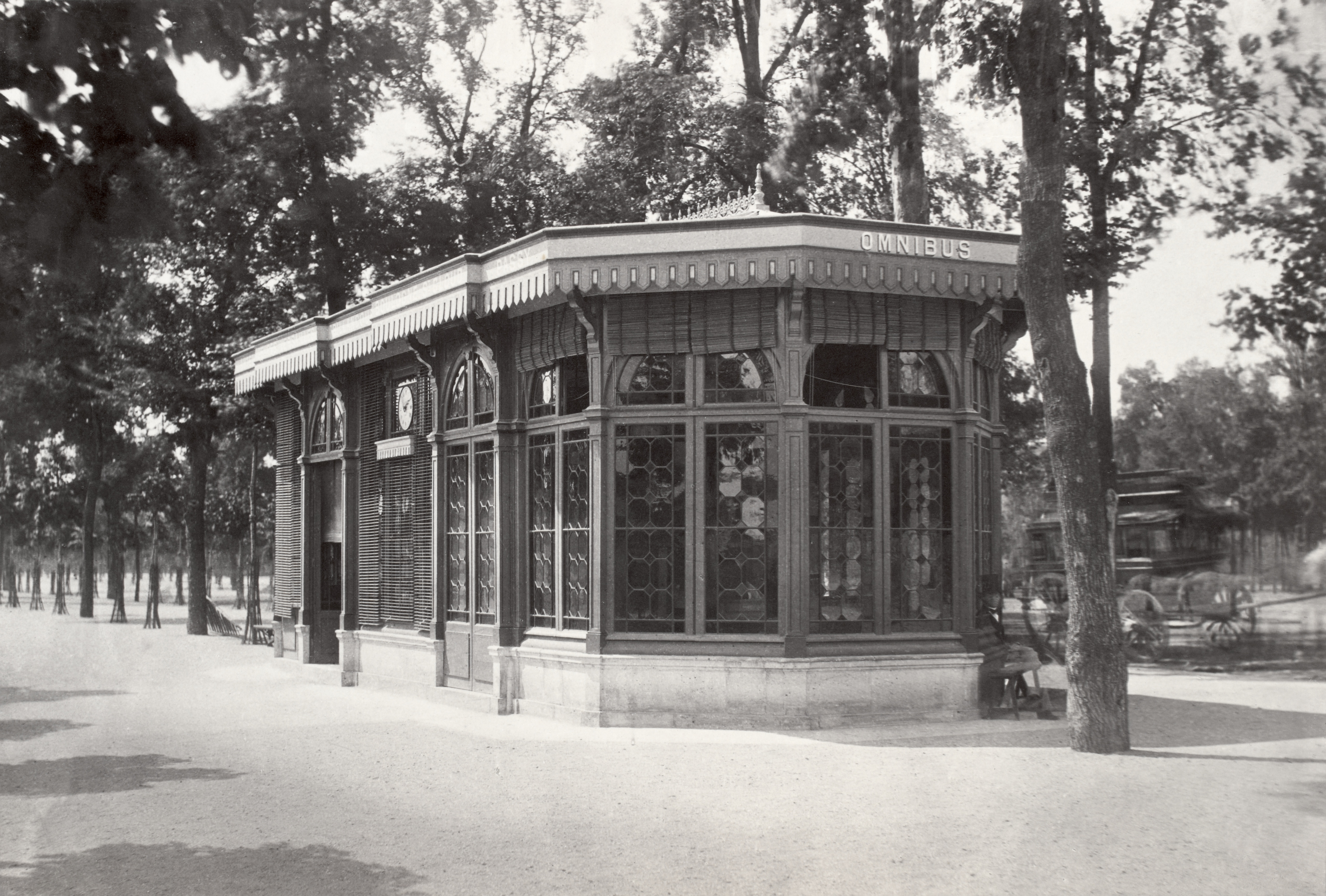 Shows Office of General Omnibus Company in the Champs- Elysees, decorative wooden frame and windows, trim around roof.